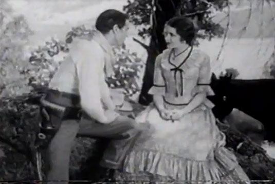 Screenshot from the 1929 film The Virginian with Gary Cooper and Mary Brian.